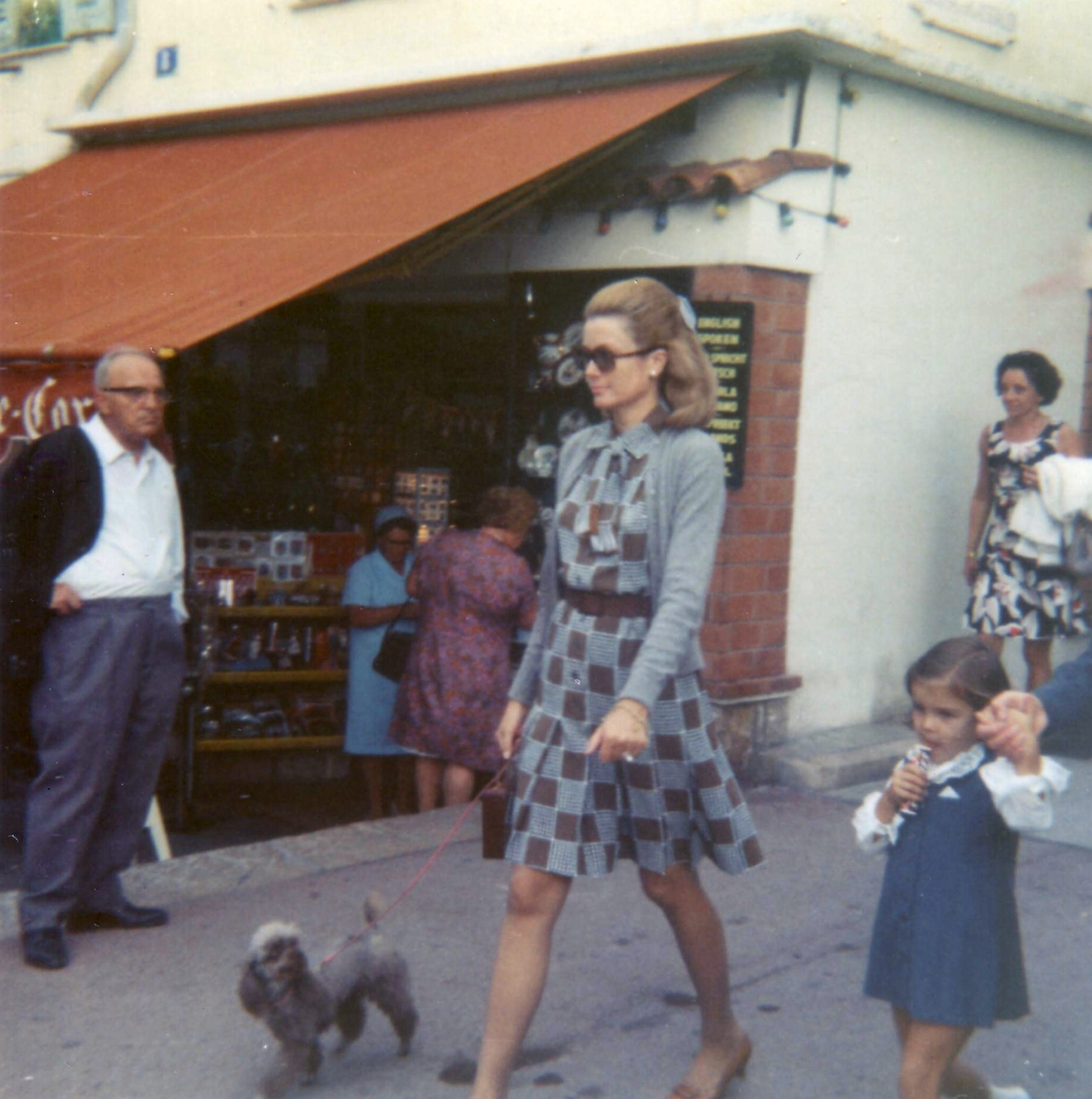 Princesse Grace with daughter, Monaco 1969